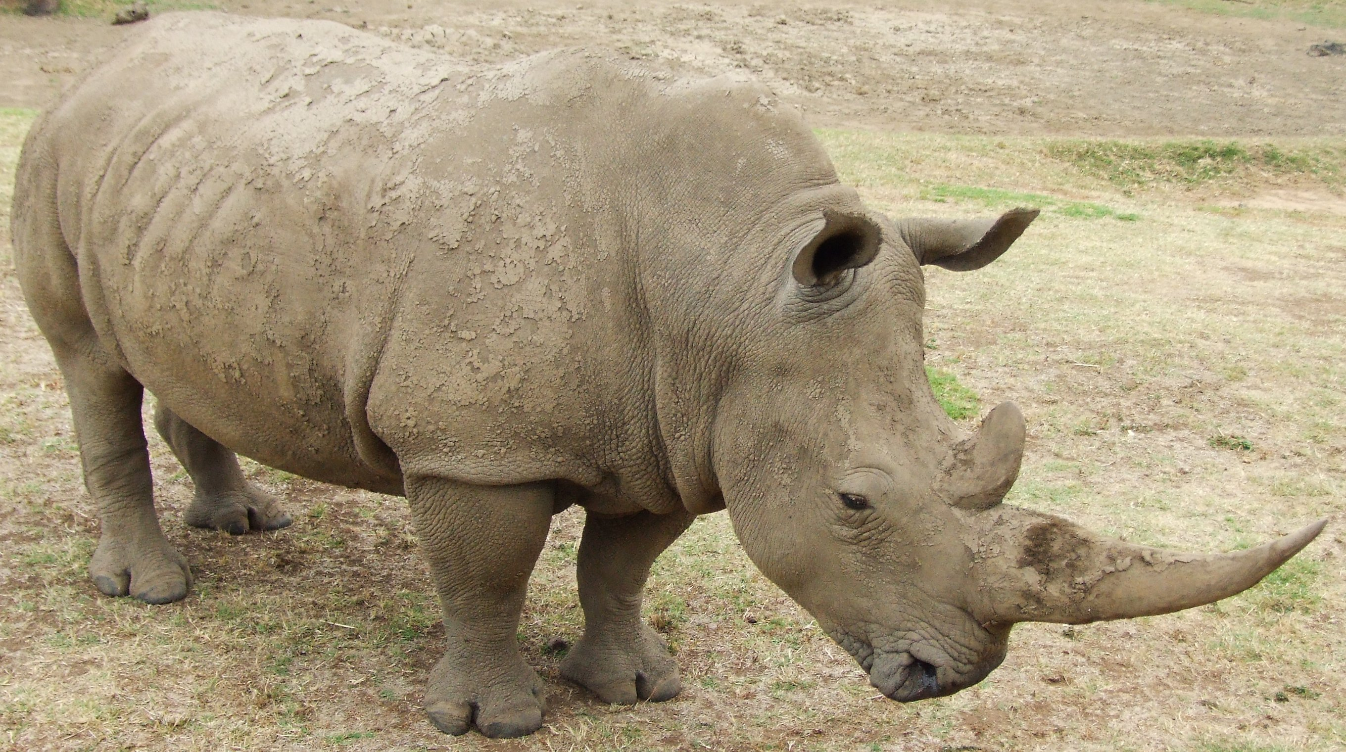 Rhinoceros from Werribee Open Range Zoo, Victoria, Australia.